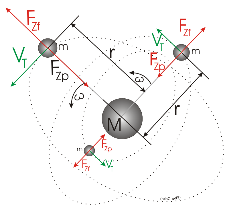 A Sketch